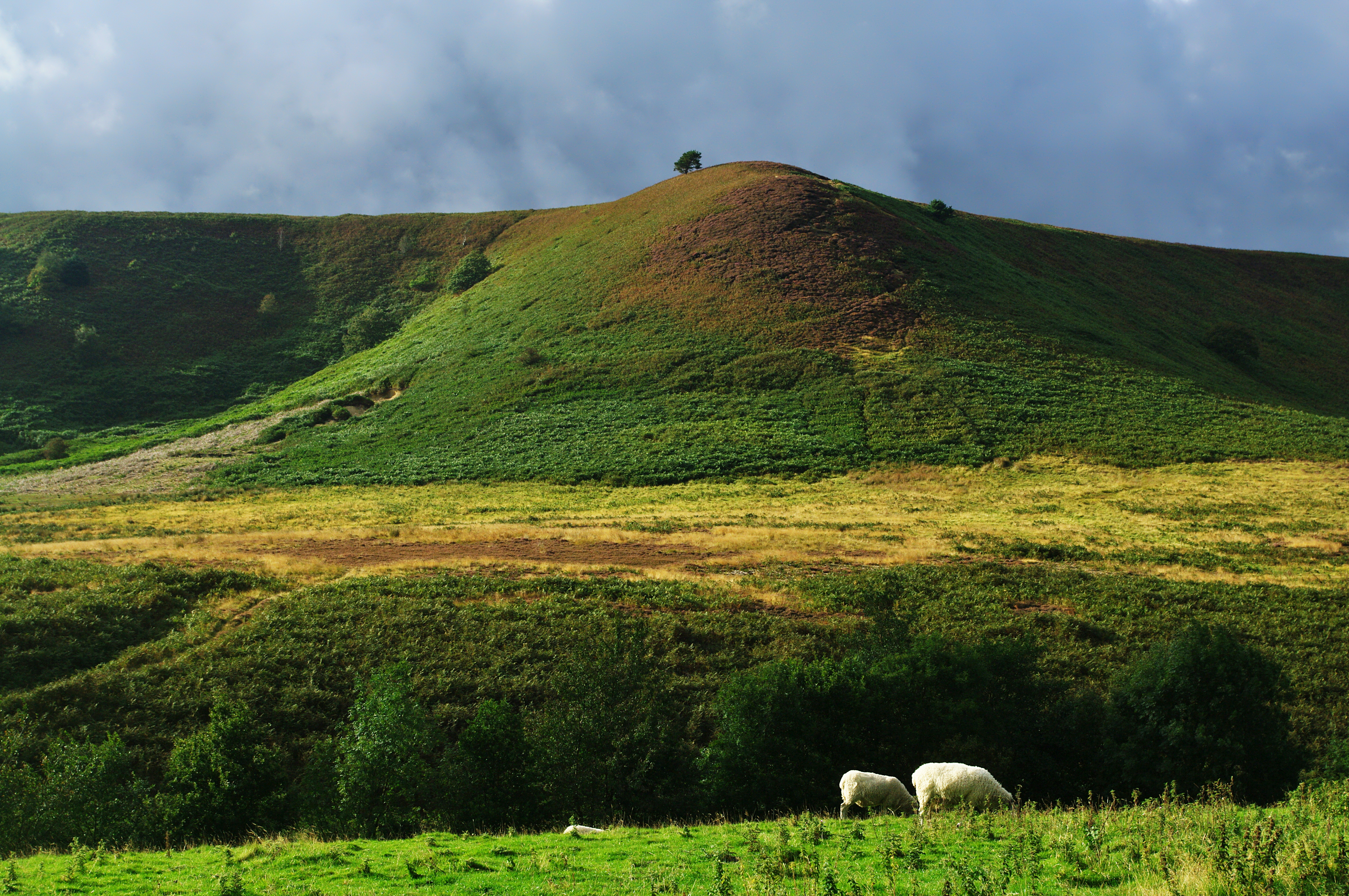 Down in the Hole of Horcum, North York Moors